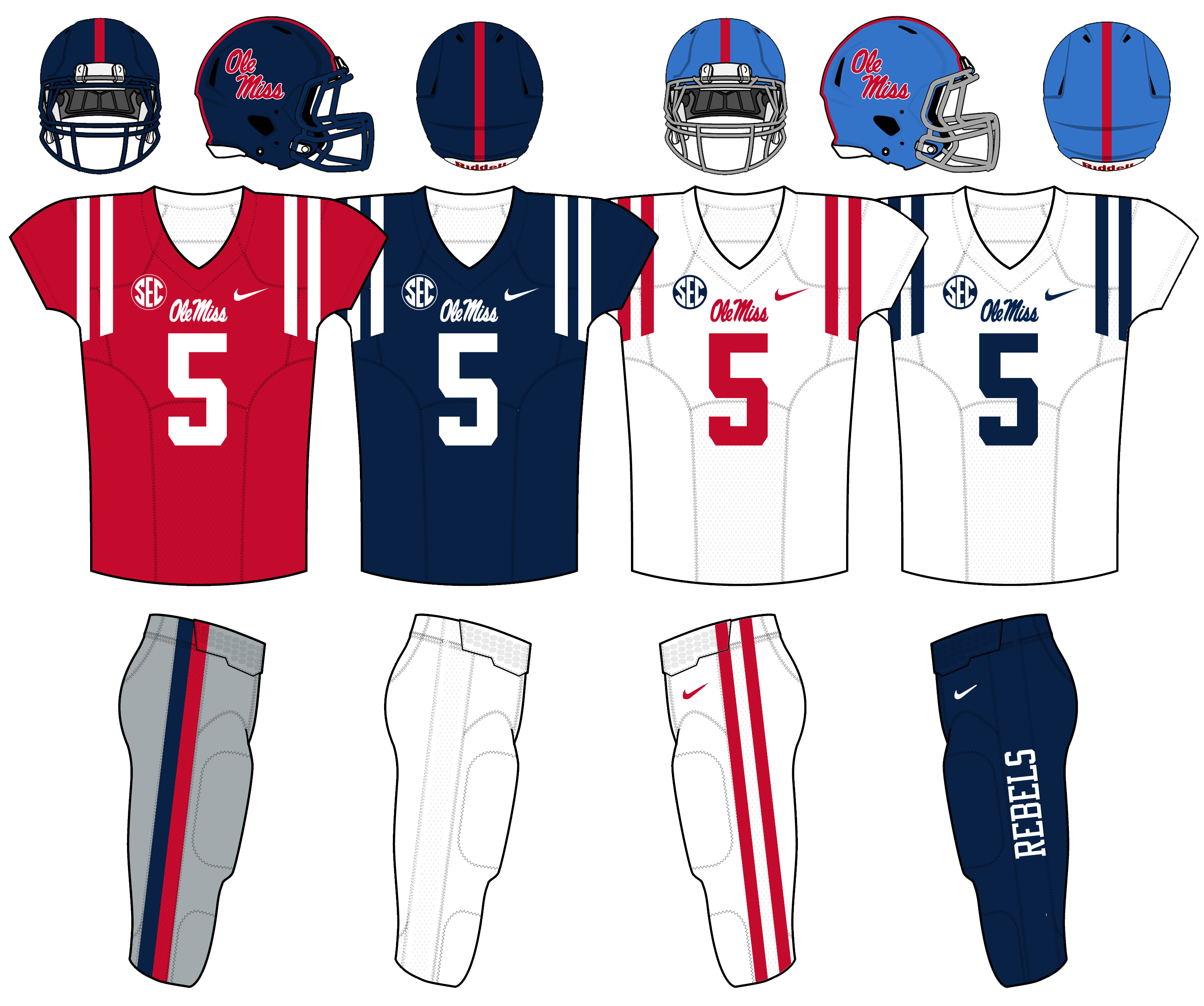 Updated 2015 Ole Miss Football Uniforms